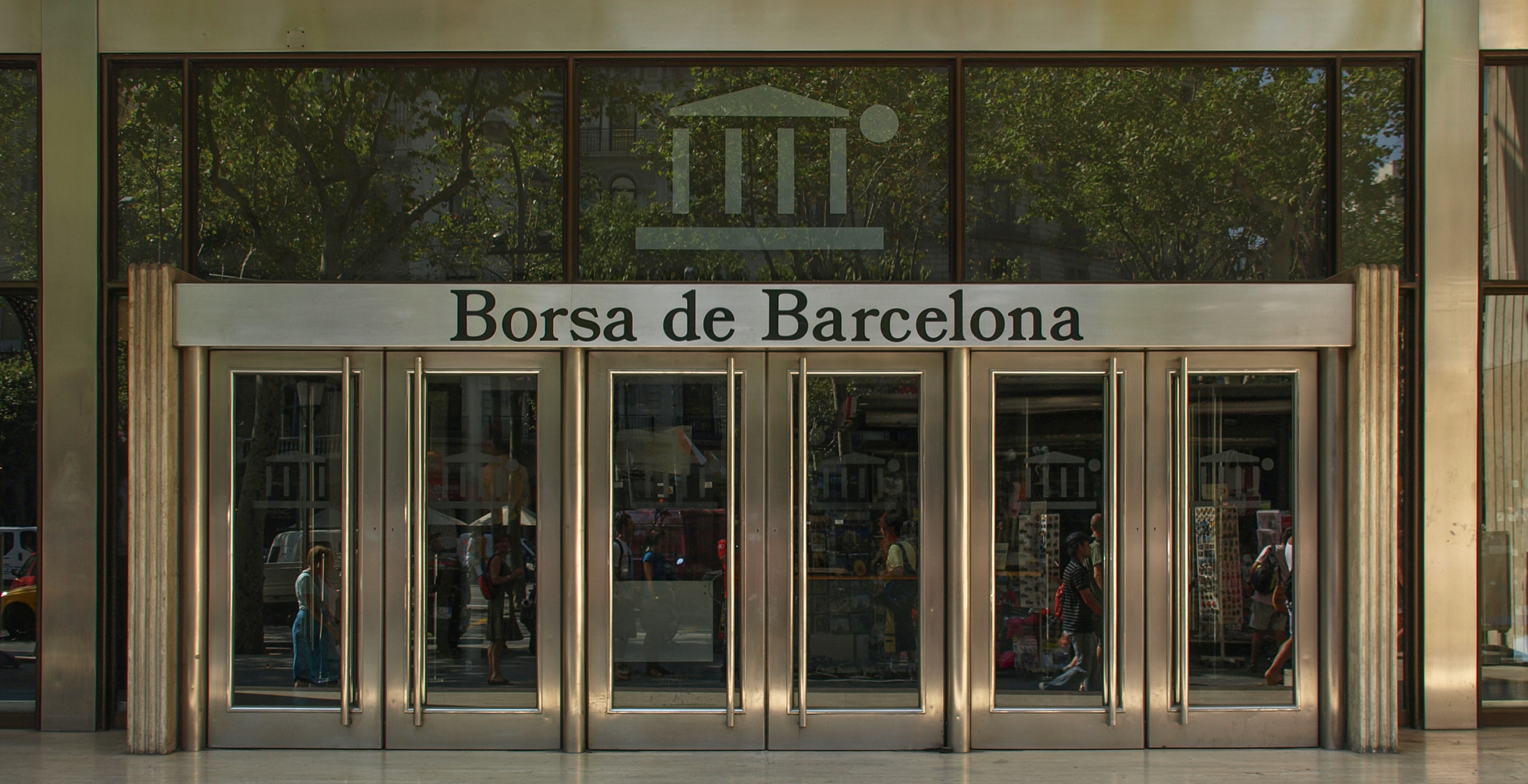 Borsa de Barcelona, official secondary market (Spain)